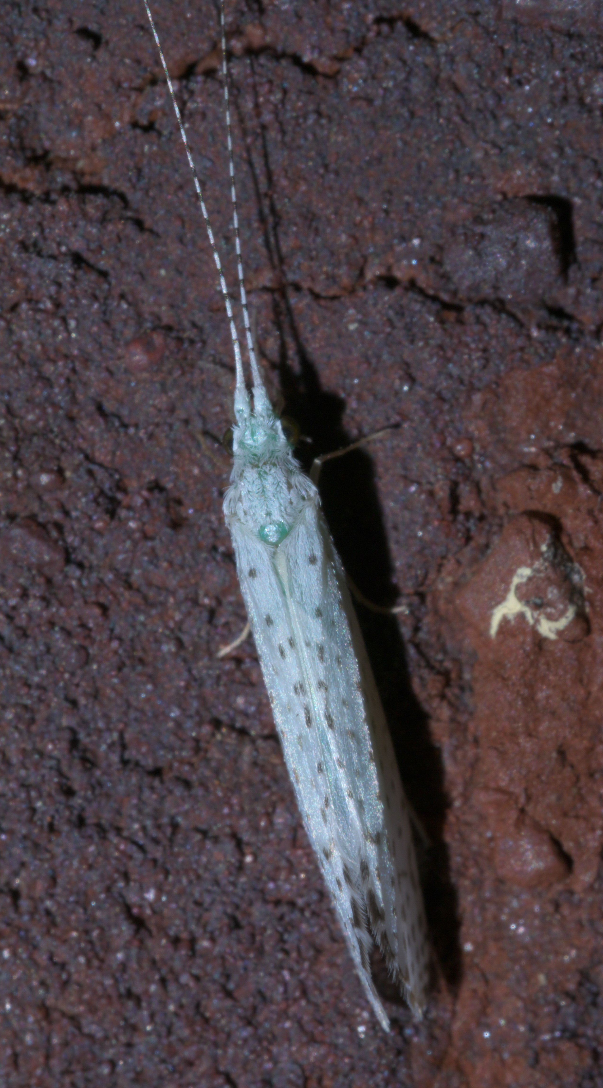 Nectopsyche, white millers, Size: 10 mm, ID Confidence: 90